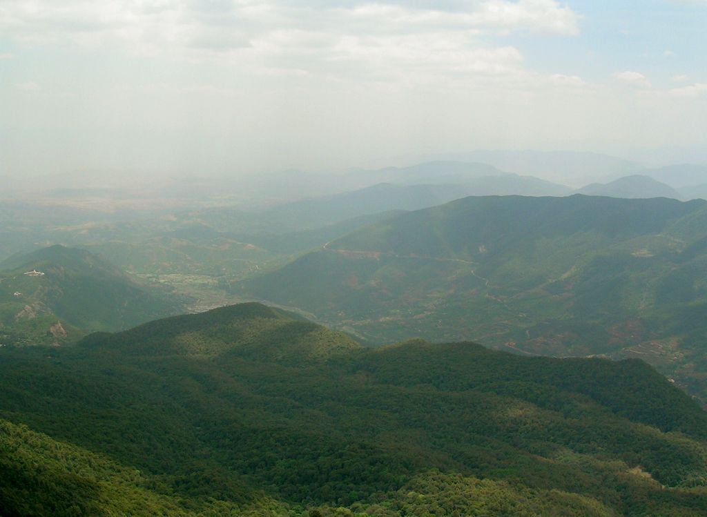 Jizu Mountain in Yunnan, China